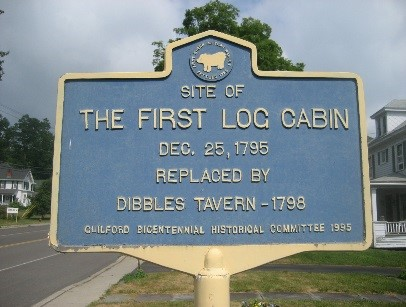 Historic marker, site of the first log cabin in Guilford, NY, 1795. Replaced by Dibbles Tavern, 1798.